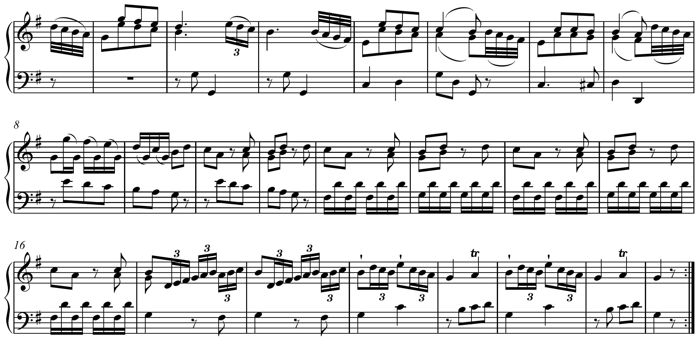 Haydn's Sonata in G Major: Recap. Created by Hyacinth (talk) 18:10, 20 June 2010 using Sibelius 5.